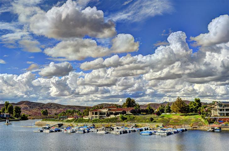 This is an HDR photo (high Dynamic Range) taken by Dennis Bickers of the Canyon Lake Lodge, light house and marina.